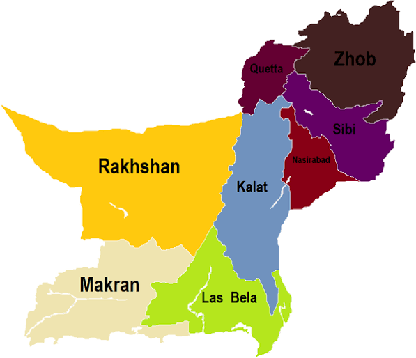 The map describing the divisions of Balochistan.